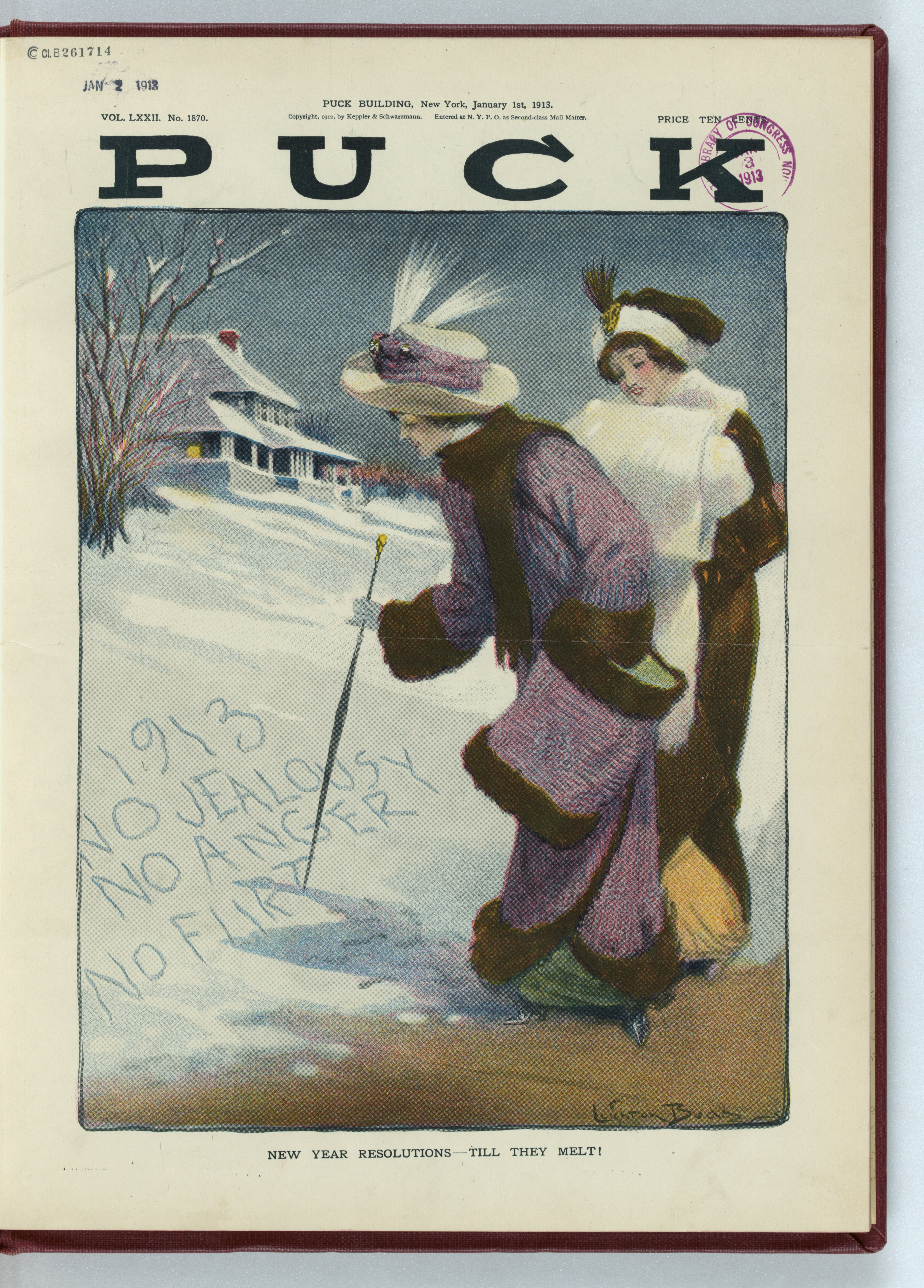 Title: New Year resolutions - till they melt! / Leighton Budd. Abstract/medium: 1 photomechanical print : offset, color.